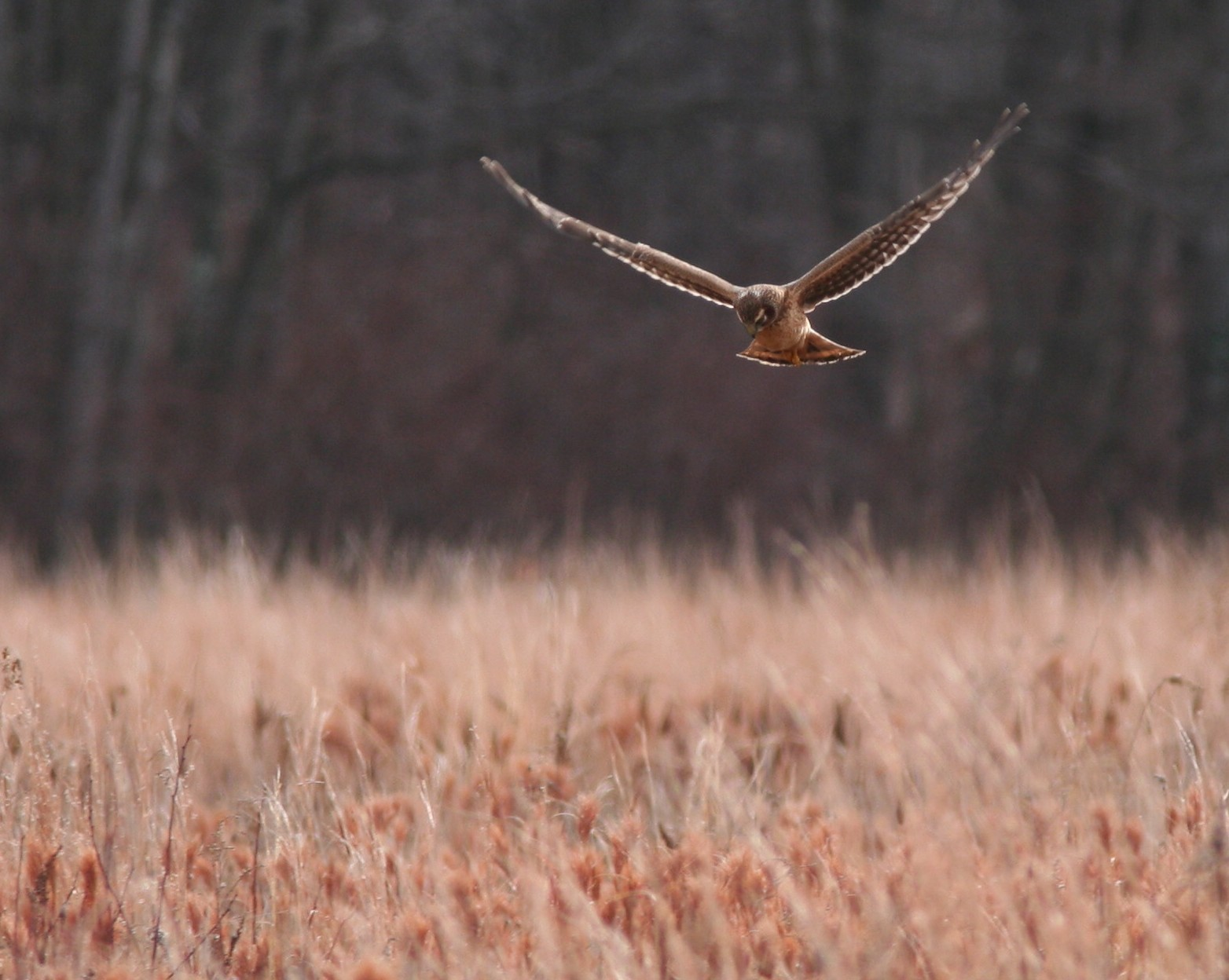 Northern Harrier (Circus hudsonius), juvenile